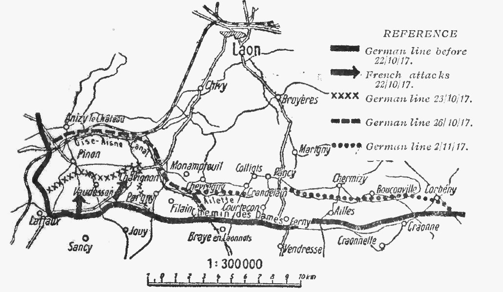 Map of battle of la Malmaison and German withdrawal from Chemin des Dames, November 1917